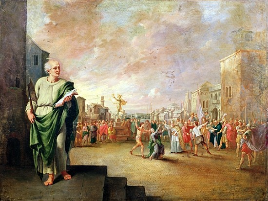 St. Matthias